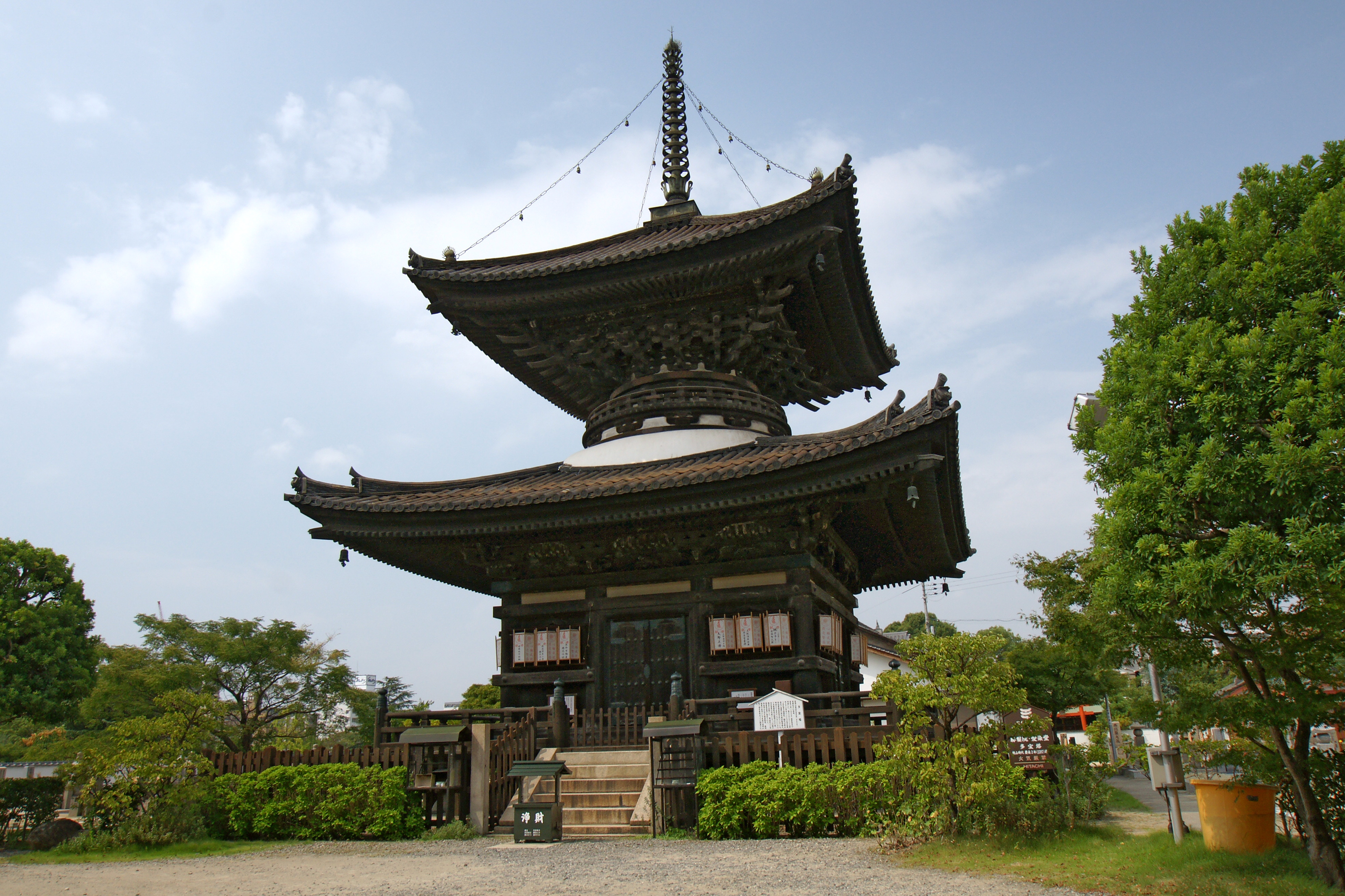 Shomanin (Aizendo) in Osaka, Osaka prefecture, Japan